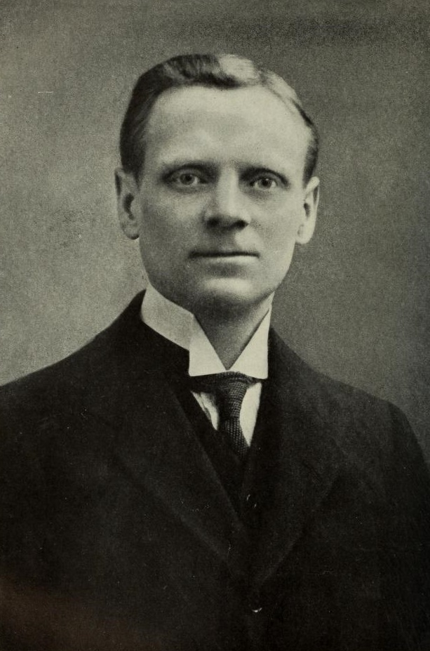 Sir Ralph Norman Angell